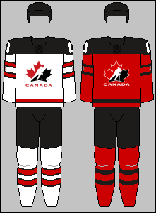 The home and away jerseys of the Canadian national ice hockey team used from the 2017 IIHF World Championship.